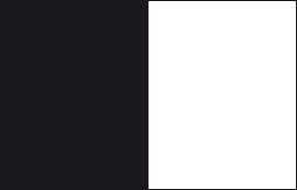 Flag of Associação Popular Monarquia Timorense APMT, East timor